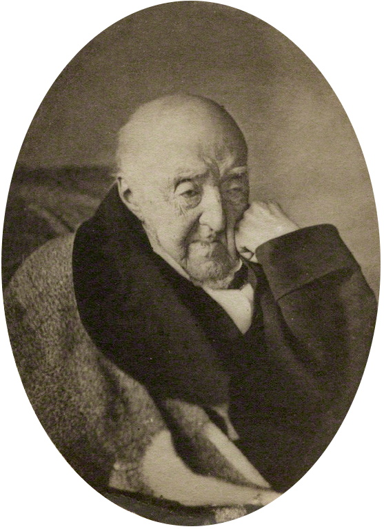 Samuel Rogers (1763-1855), Poet, banker and connoisseur.